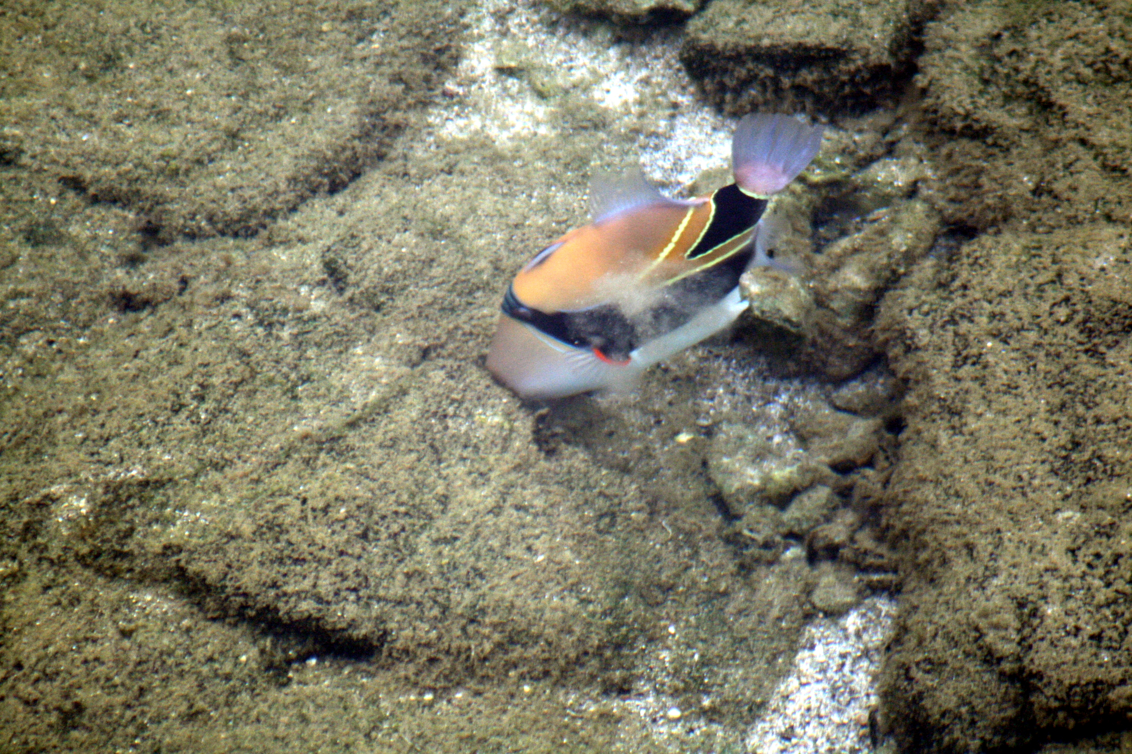 A Rhinecanthus rectangulus,or Reef Triggerfish is feeding on burrowing invertebrates in the sand, blowing out the unwanted debris through its gills.